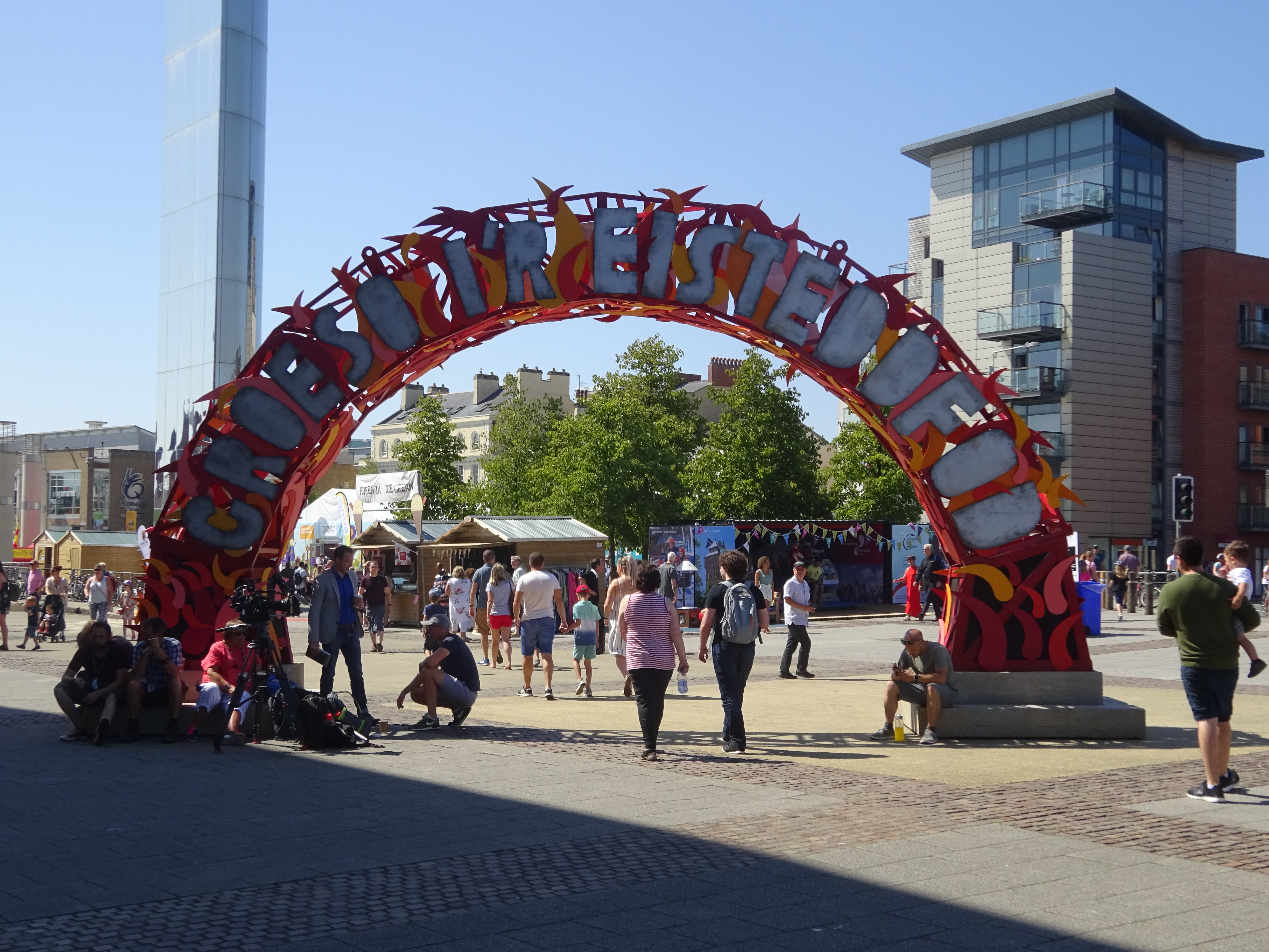 Caerdydd Eisteddfod 2018, Wales. Main entrance to the Eisteddfod. Cardiff Bay. This photo has been taken in the country: United Kingdom